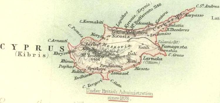 Turkey in Asia (Asia Minor) and Transcaucasia. Keith Johnston's General Atlas. Oct. 1911. Engraved, Printed, and Published by W. & A.K. Johnston, Limited, Edinburgh & London